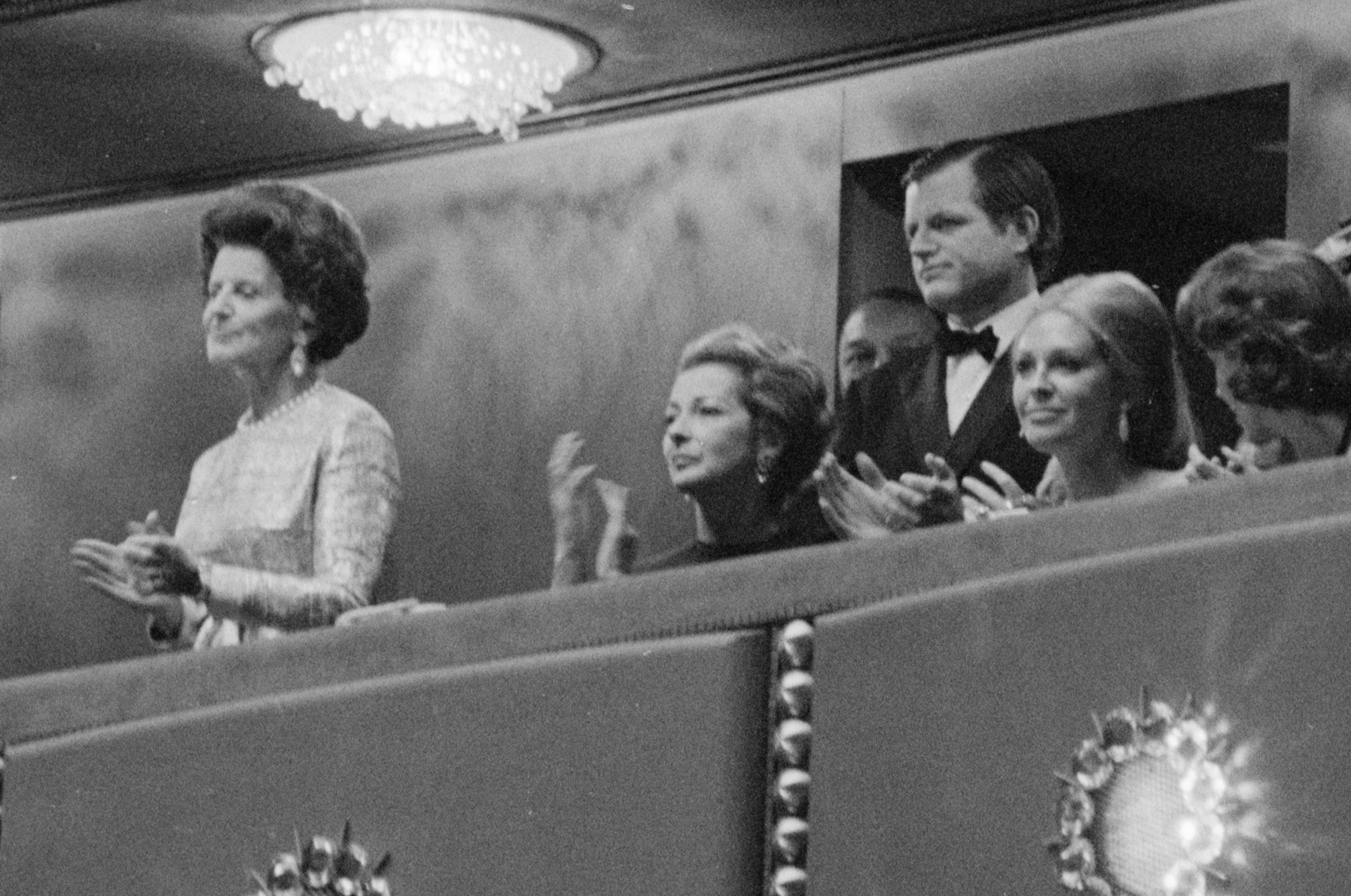 Gala opening of J.F.K. Performing Arts Center (Presidential box - Kennedy family, including Rose Kennedy)